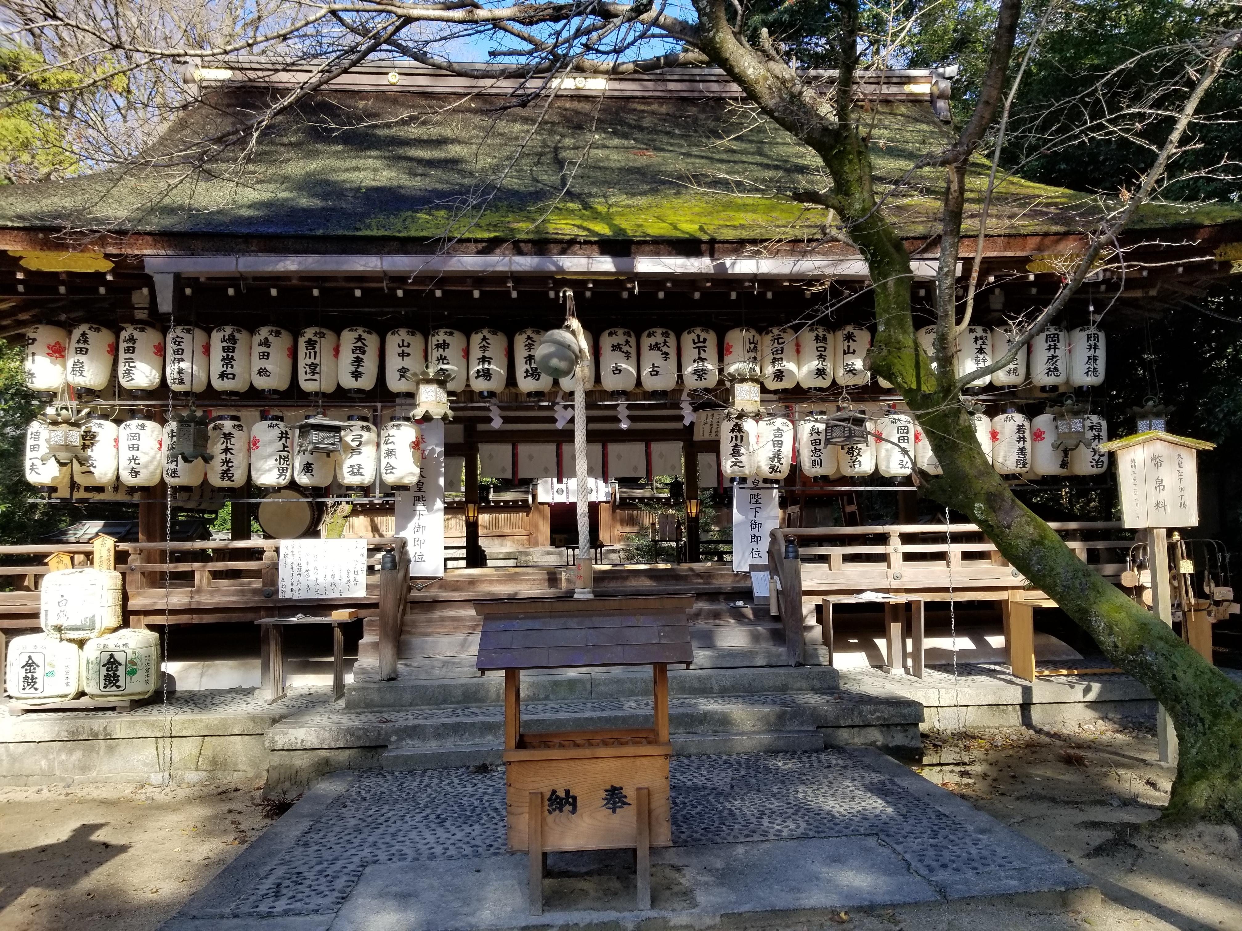 Front view of the haiden of Hirose Shrine in Kawai, Nara, Japan